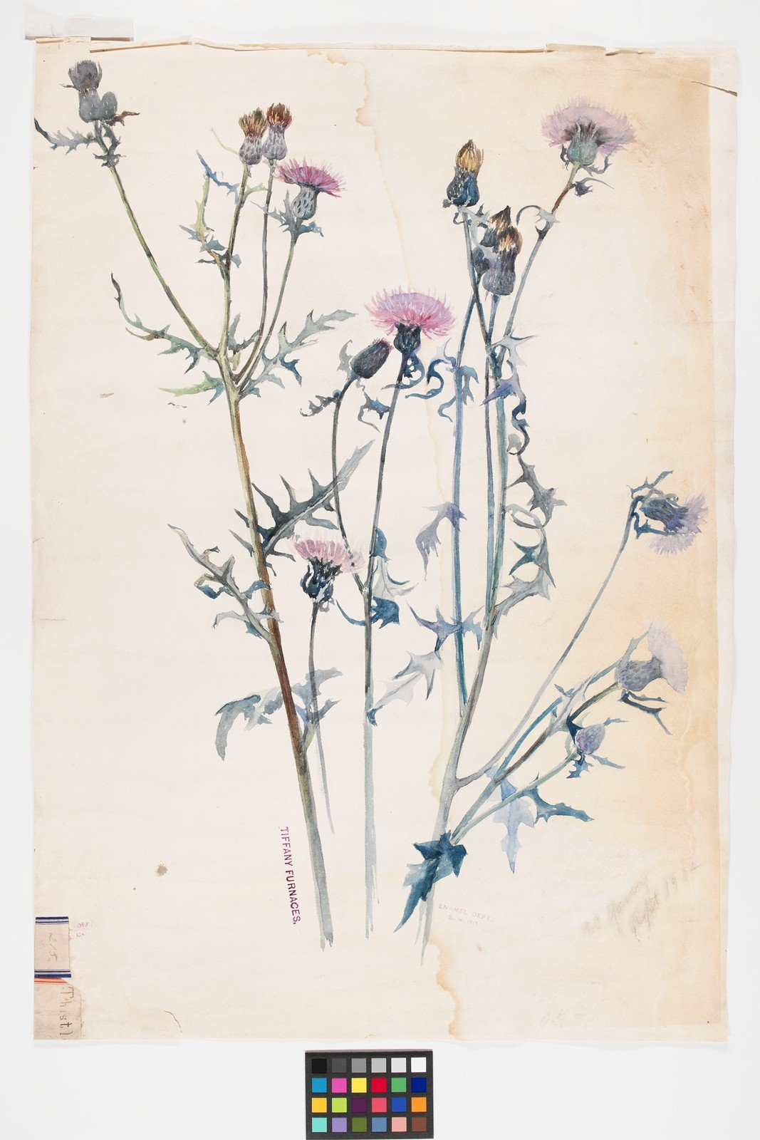 An original watercolor by Alice Carmen Gouvy, a designer for Tiffany studios from 1898 to 1907.